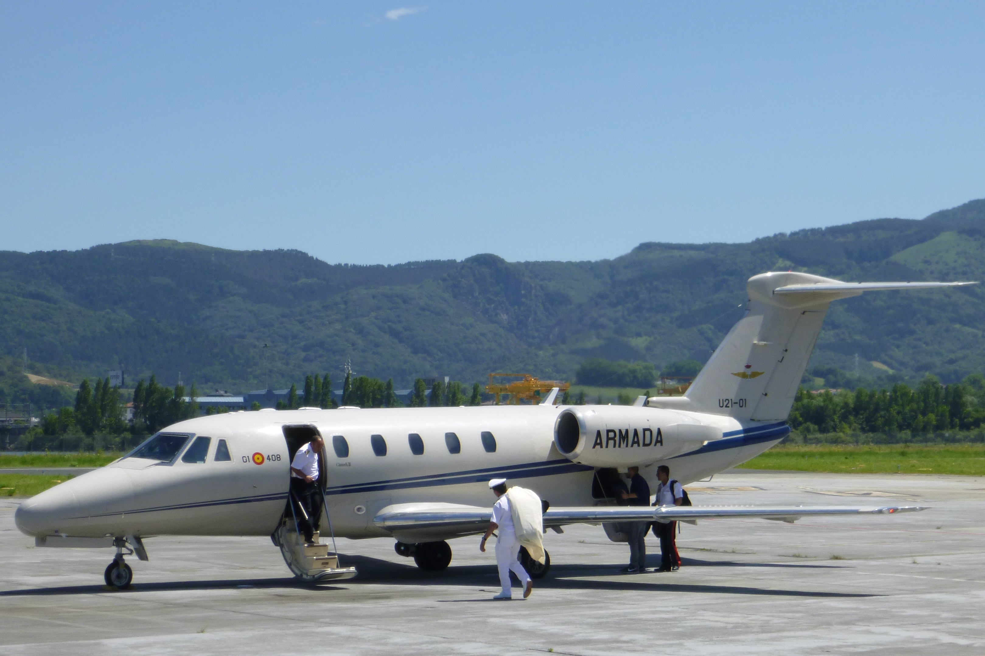 Airport of Hondarrbia